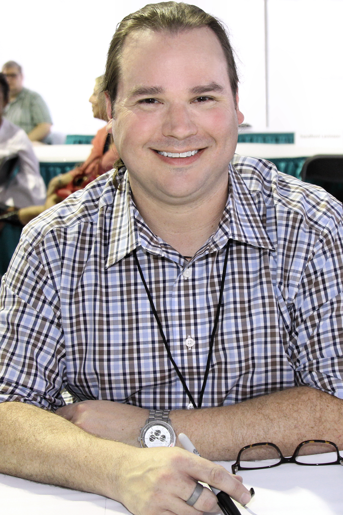 Author Matthew Holm at the 2017 Texas Book Festival.